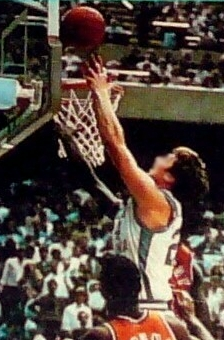 North Carolina Tar Heels junior basketball player Joe Wolf reaching for the ball at a home game during a February 26, 1986 home game against University of Virginia.